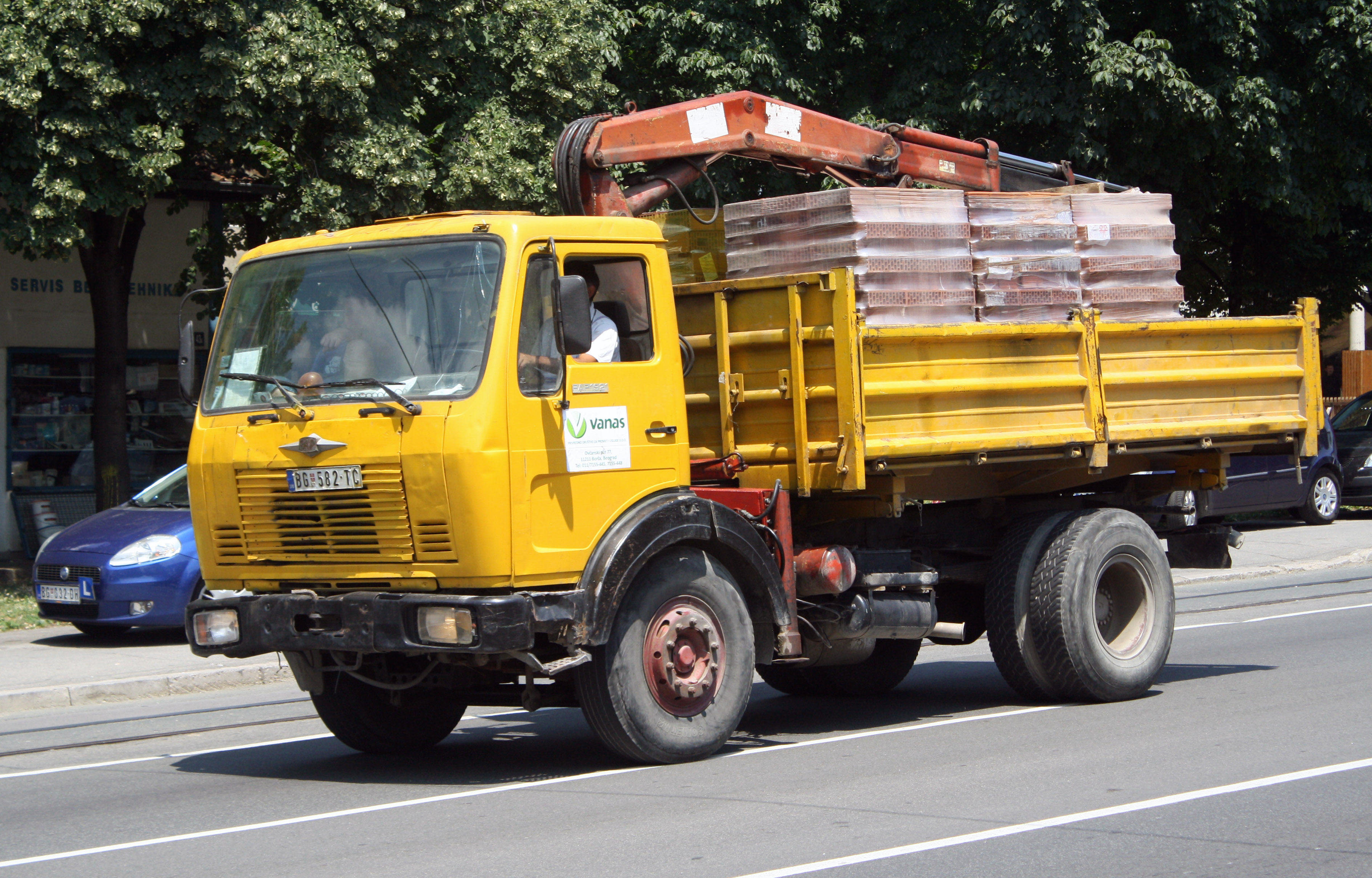 FAP 1921 bump truck with crane in Belgrade.